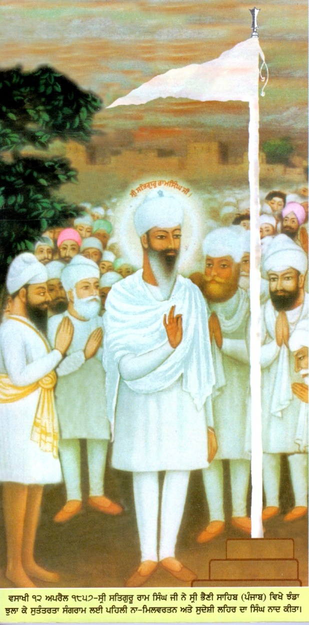 The White triangular flag symbolizing peace and purity.